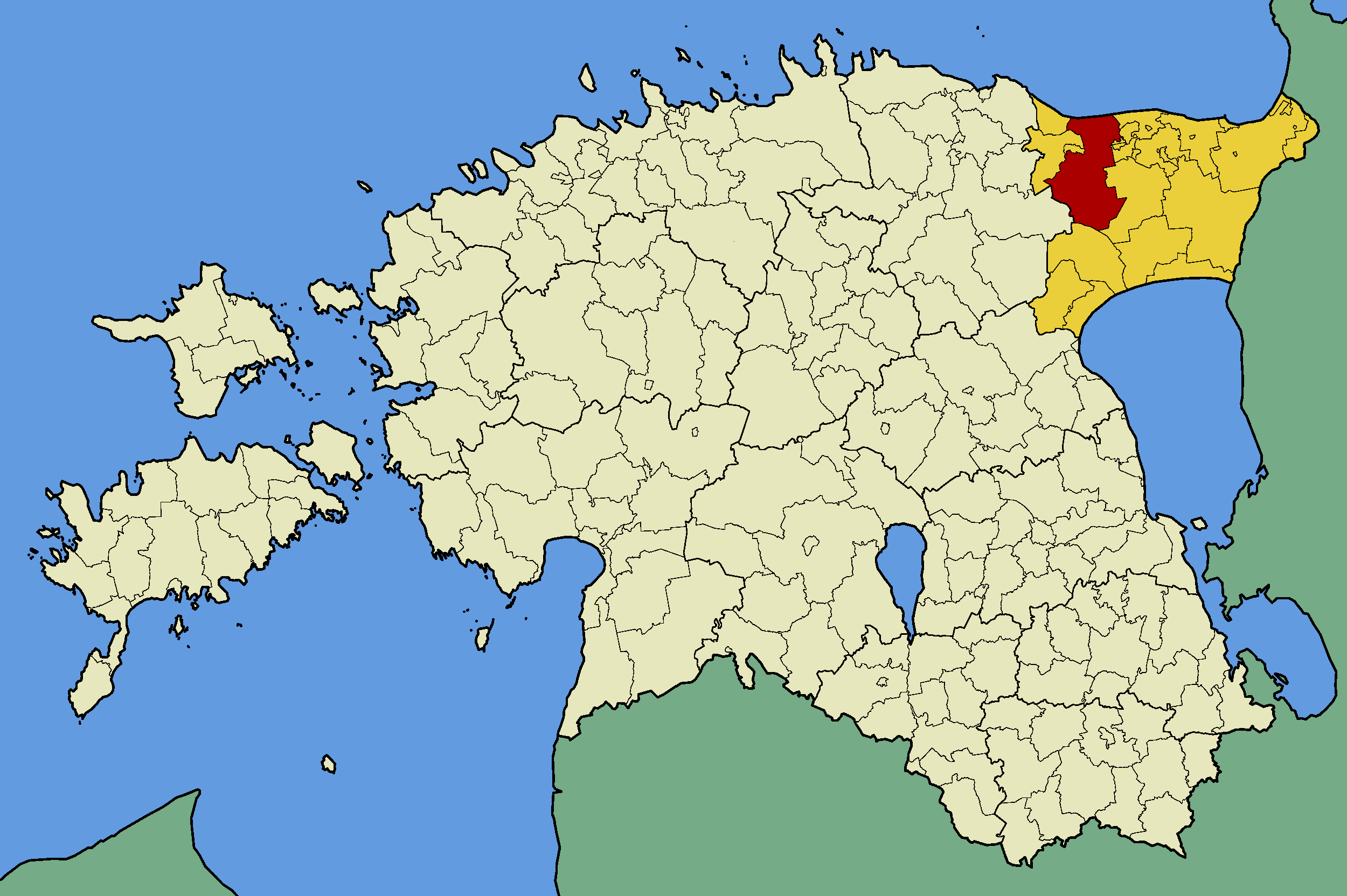 Map of Estonia with borders of municipalities (parishes). Ida-Viru county and Lüganuse municipality emphasized.